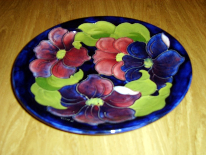 An example of a Moorcroft shallow dish, with 'poppies' design.